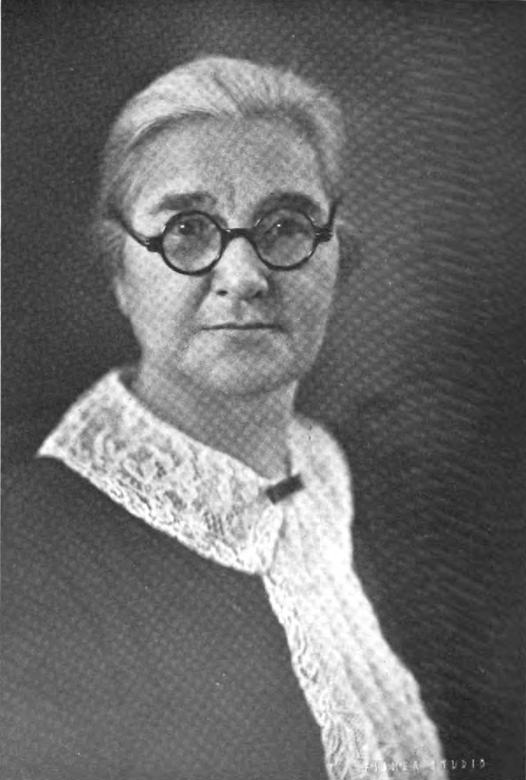 Tillie Kinnon Paul Tamaree Born: January 18, 1863 Died: August 20, 1952